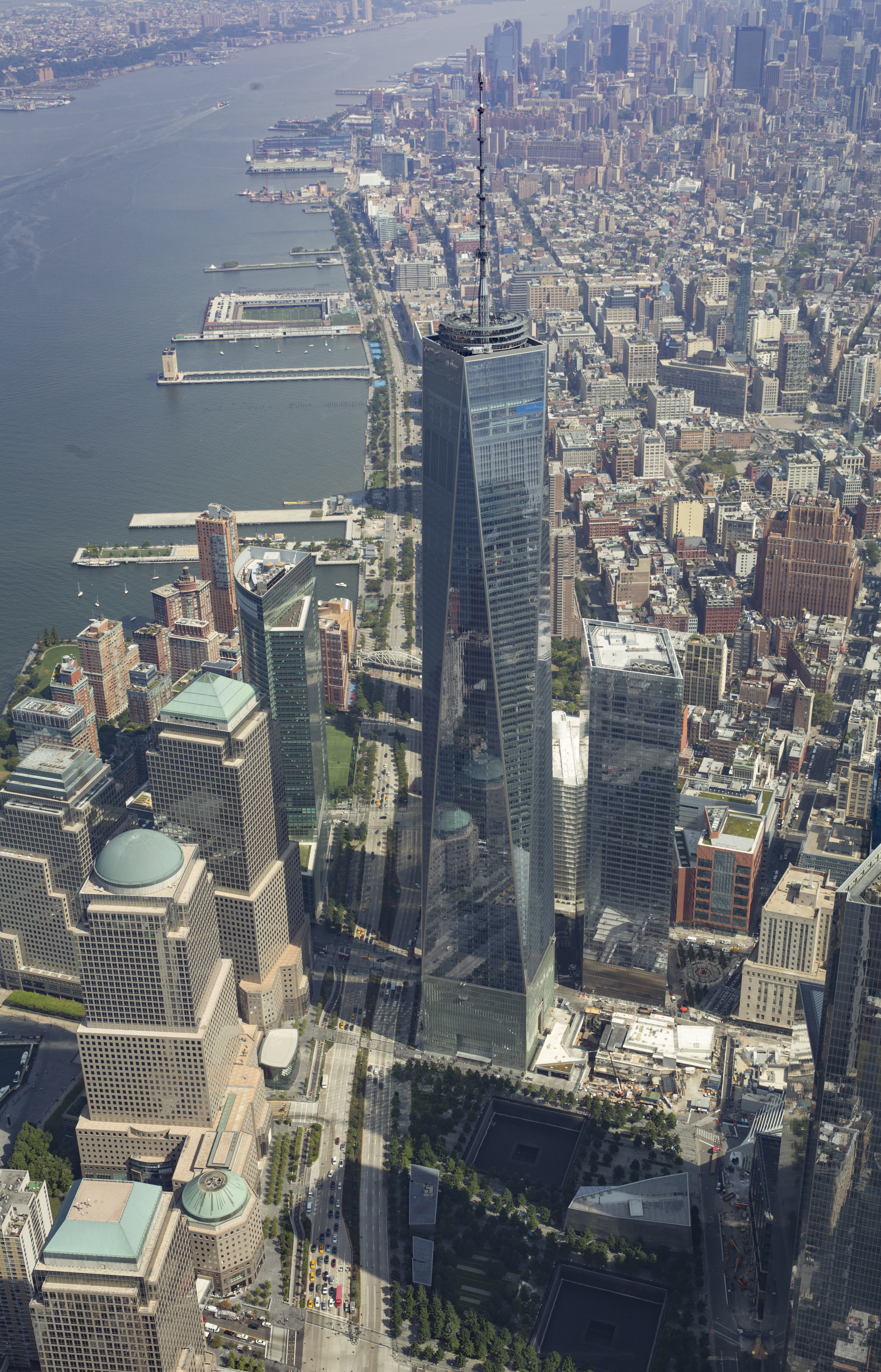 Customs and Border Protection return to the Freedom Tower at the World Trade Center in New York City for the first time since the 9/11 terrorist attacks. Photos by James Tourtellotte